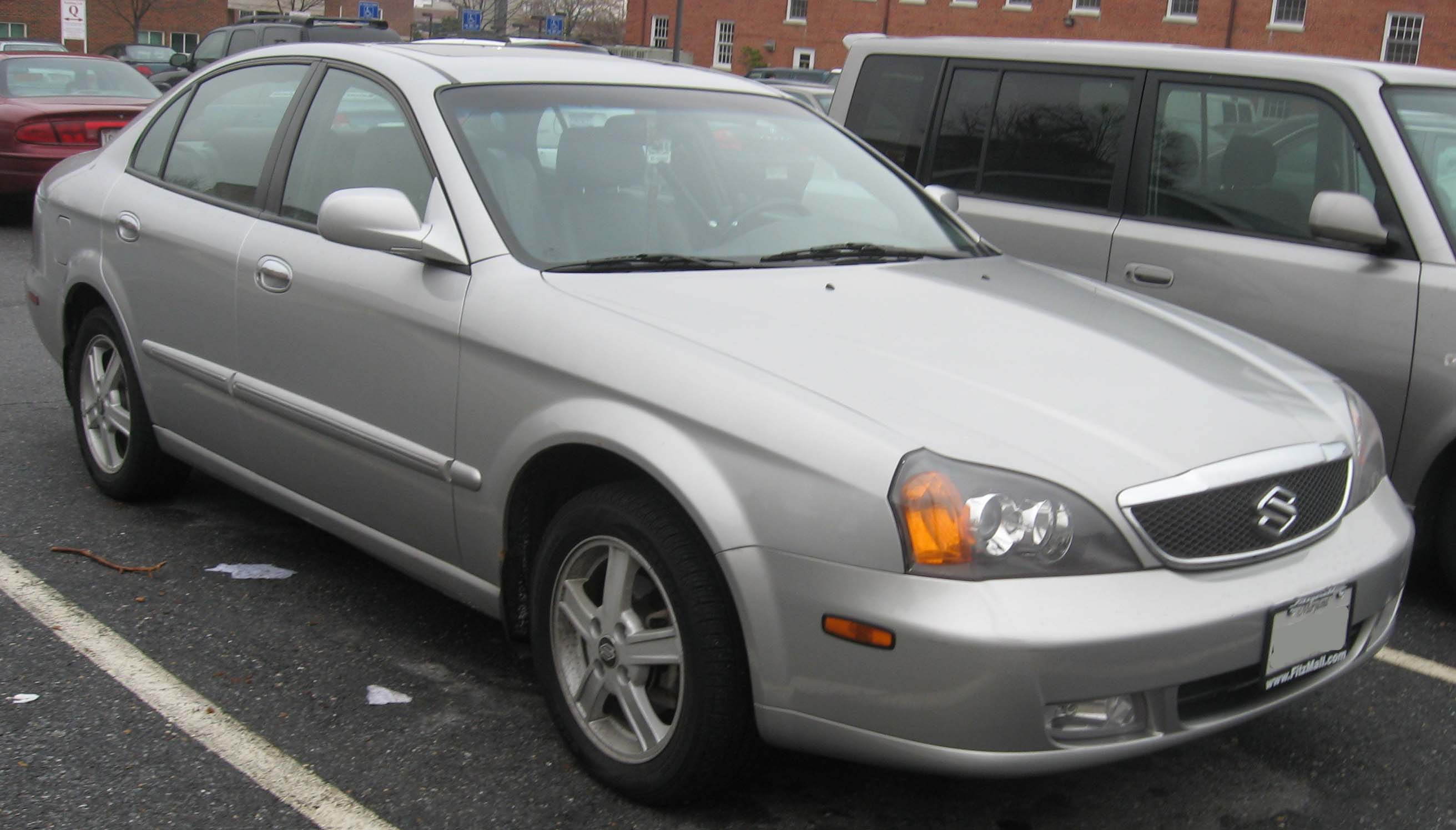 Suzuki Verona photographed in College Park, Maryland, USA.